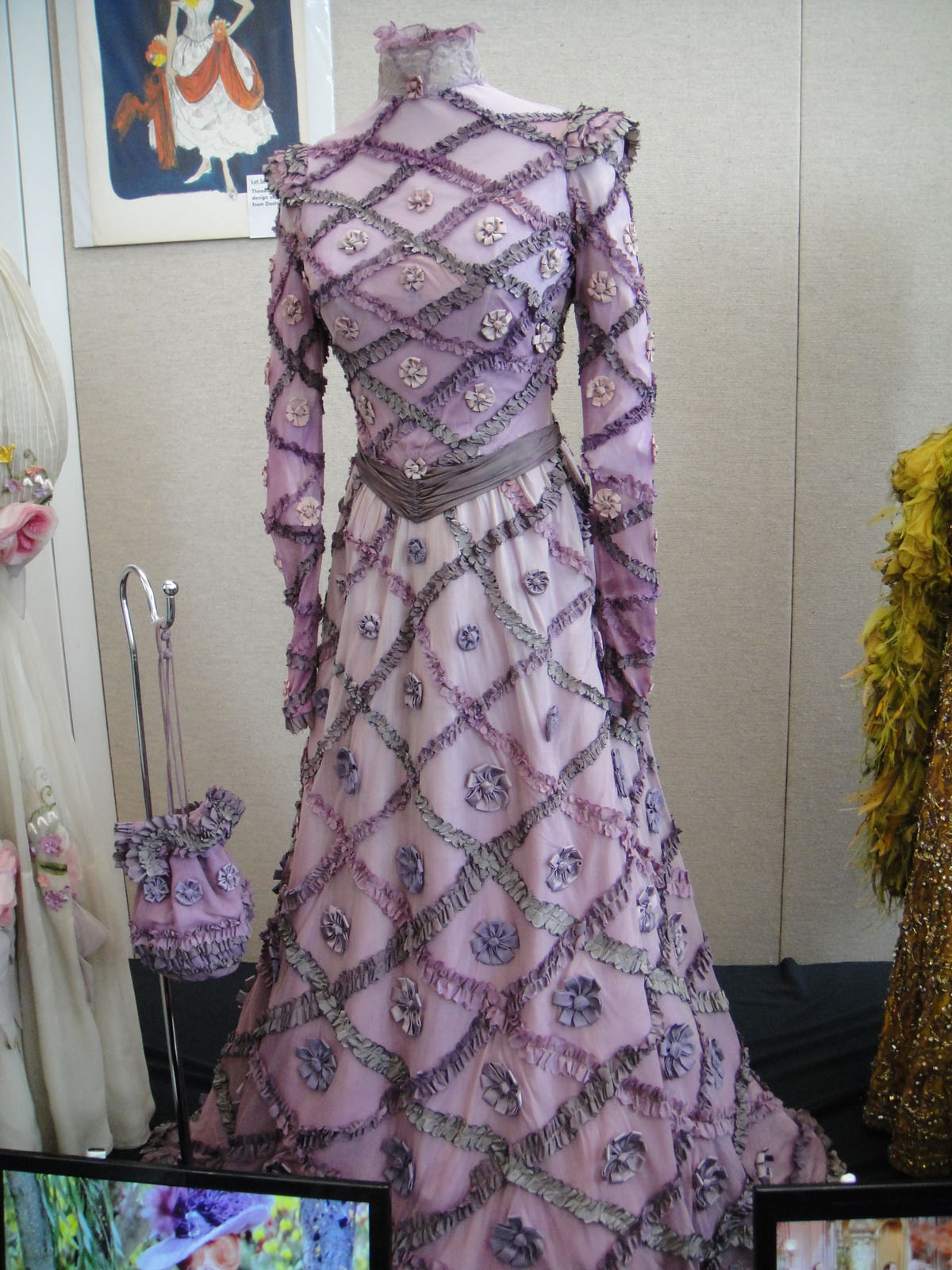 Barbra Streisand dress and purse from "Hello, Dolly!" at the Debbie Reynolds Auction Breaks Up Historic Hollywood Collection (The Paley Center for Media in Beverly Hills, Los Angeles, CA, USA).